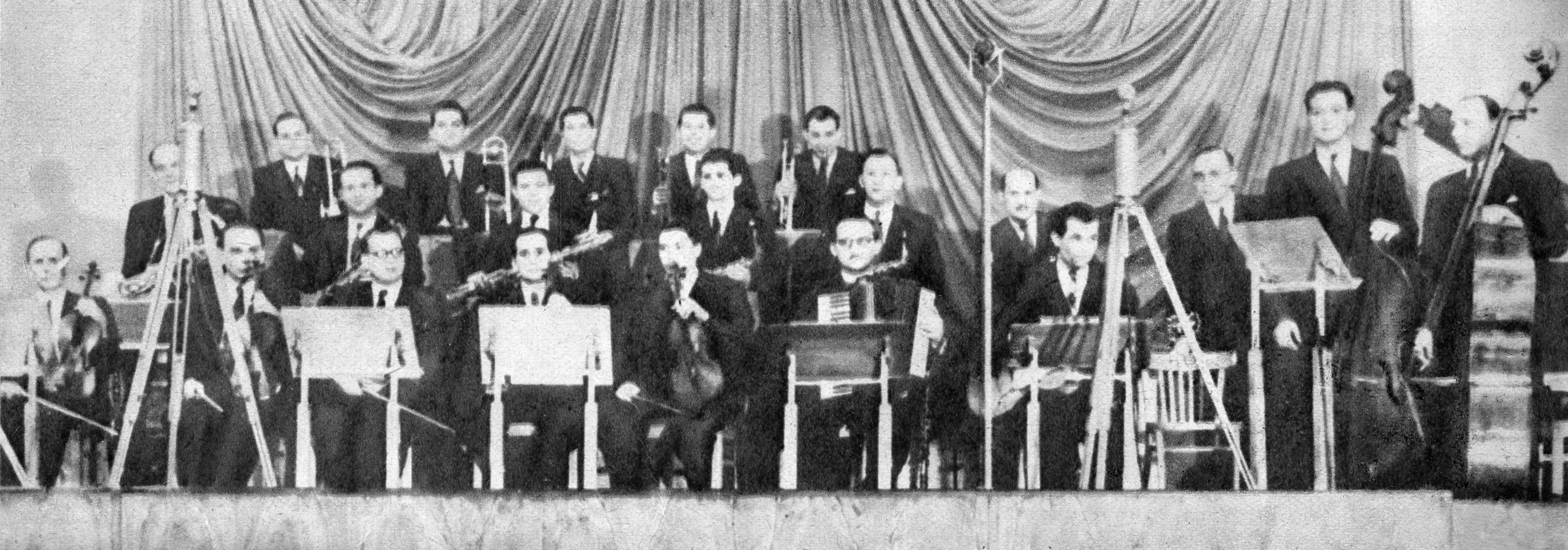 Polish Radio Entertainment Orchestra, Jan Cajmer conductor